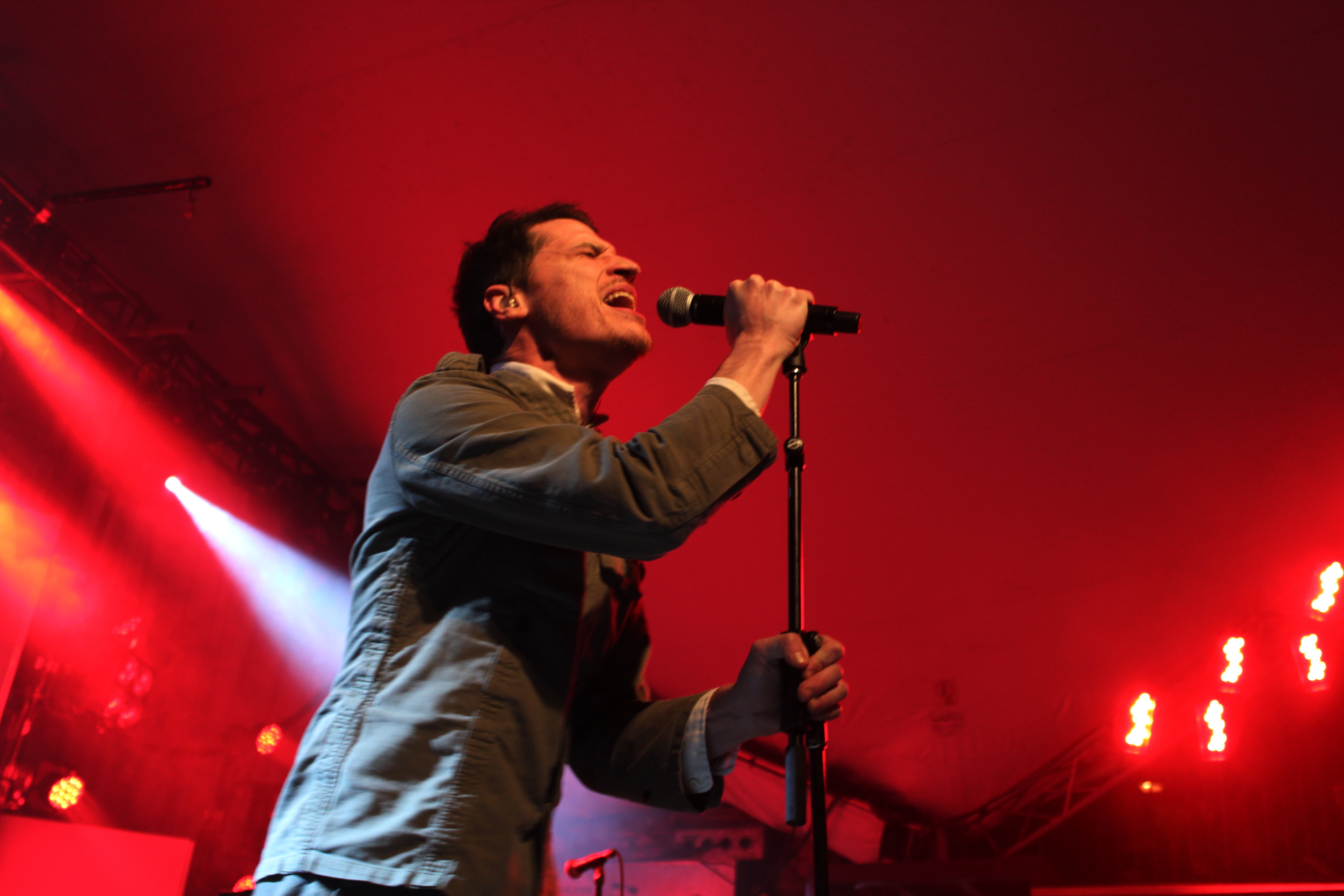 Mutemath performing on January 27, 2012 in Austin, Texas.